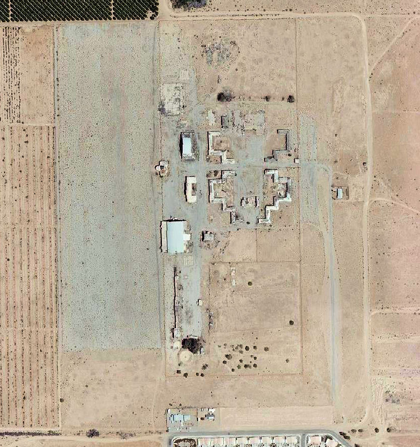 USGS digital orthophoto of W. R. Byron Airport in California